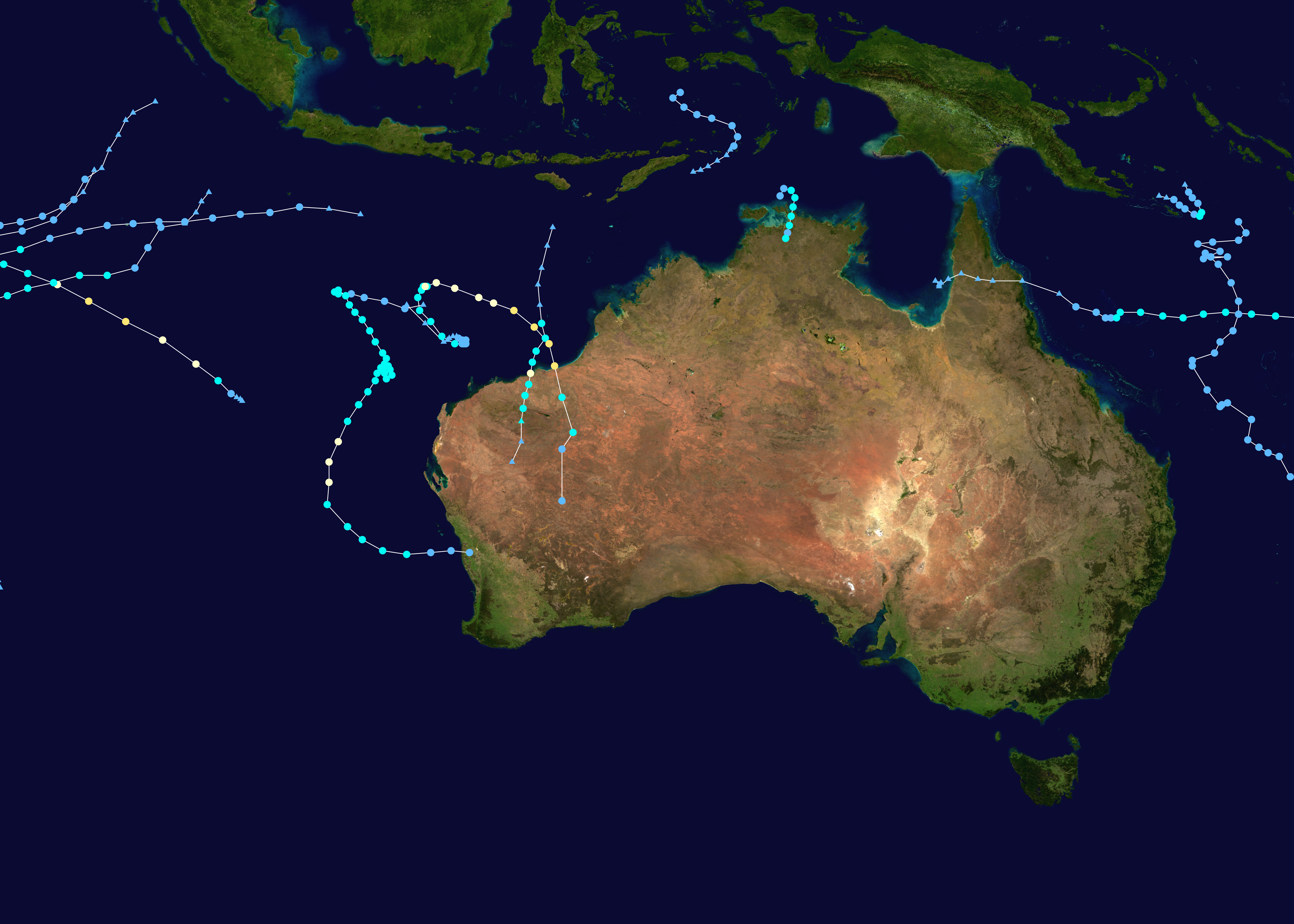 This map shows the tracks of all tropical cyclones in the 2011-12 Australian region cyclone season. The points show the location of each storm at 6-hour intervals. The colour represents the storm's maximum sustained wind speeds as classified in the Saffir-Simpson Hurricane Scale (see below), and the shape of the data points represent the type of the storm. Saffir–Simpson scale Tropical depression≤38 mph≤62 km/h Category 3111–129 mph178–208 km/h Tropical storm39–73 mph63–118 km/h Category 4130–156 mph209–251 km/h Category 174–95 mph119–153 km/h Category 5≥157 mph≥252 km/h Category 296–110 mph154–177 km/h Unknown Storm type Tropical cyclone Subtropical cyclone Extratropical cyclone / Remnant low / Tropical disturbance / Monsoon depression